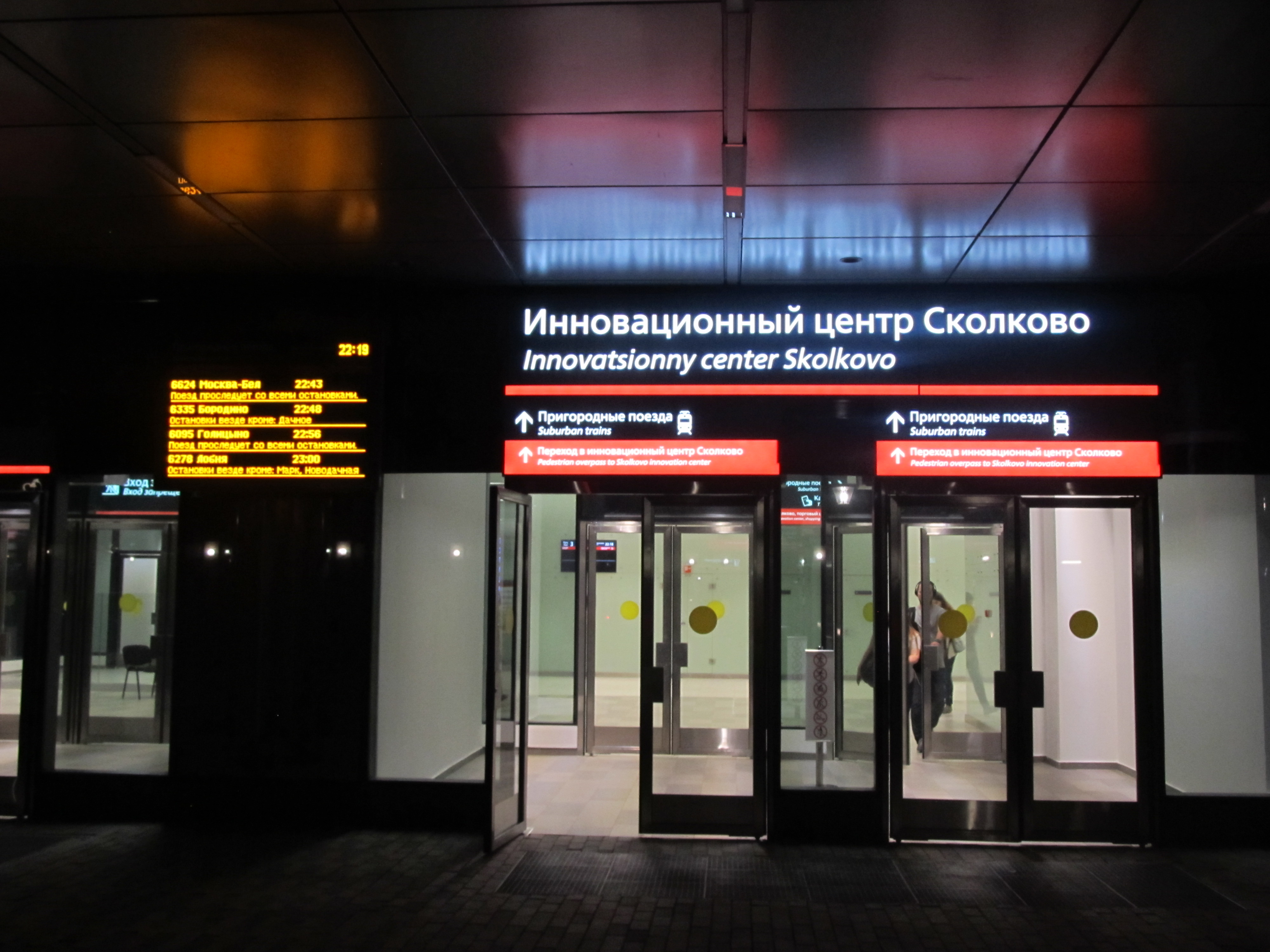 Entrance of Skolkovo Innovation Centre railway platform (from Trekhgorka and Kutuzovskii microdistricts of Odintsovo)